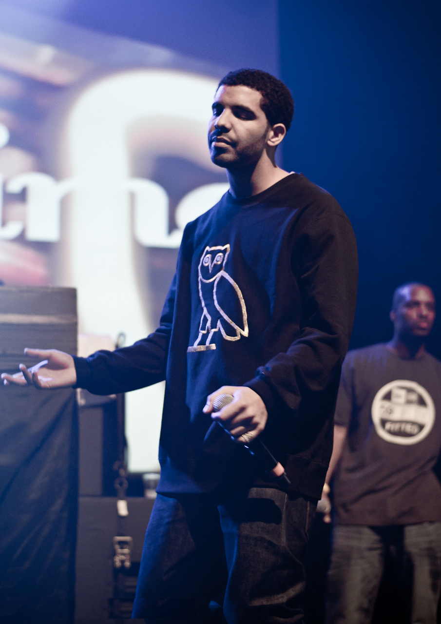 Drake at the Sound Academy, Toronto, Ontario, Canada.